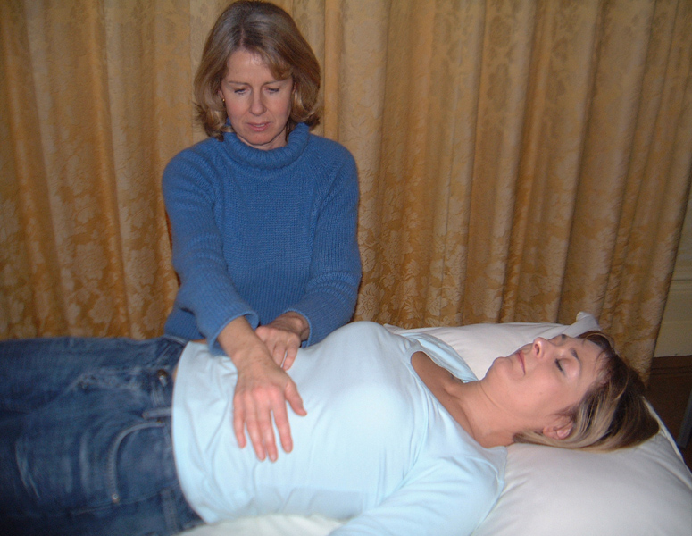 This image depicts a Reiki treatment in progress. Author: James Logan; Uploaded by Andy Beer with agreement of author and models.